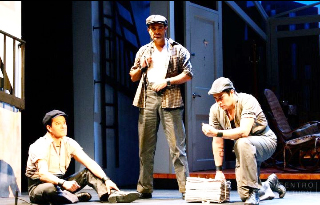 Carlos Barragán en Panorama desde el puente